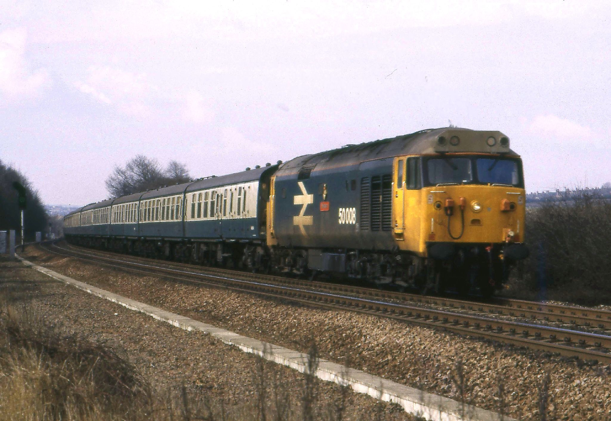 This was a Footex from Cardiff and ran direct to Wadsley Bridge,the station used for the Sheffield Wednesday ground and so became one of only 2 Fifties to run over the Woodhead line,the other being D414 on a Manchester United supporters train on 14th March 1970.